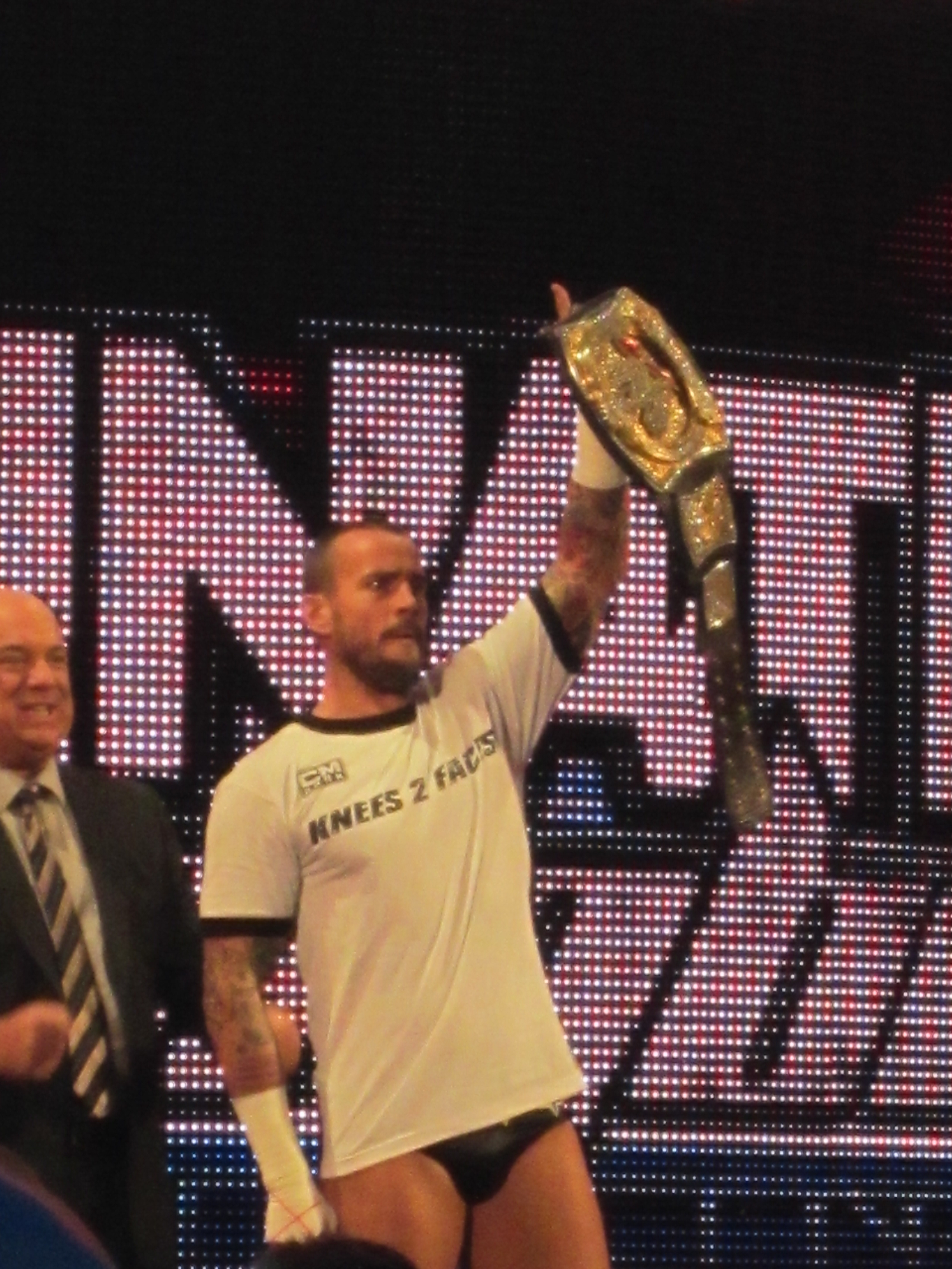 CM Punk stealing The Rock's WWE Championship